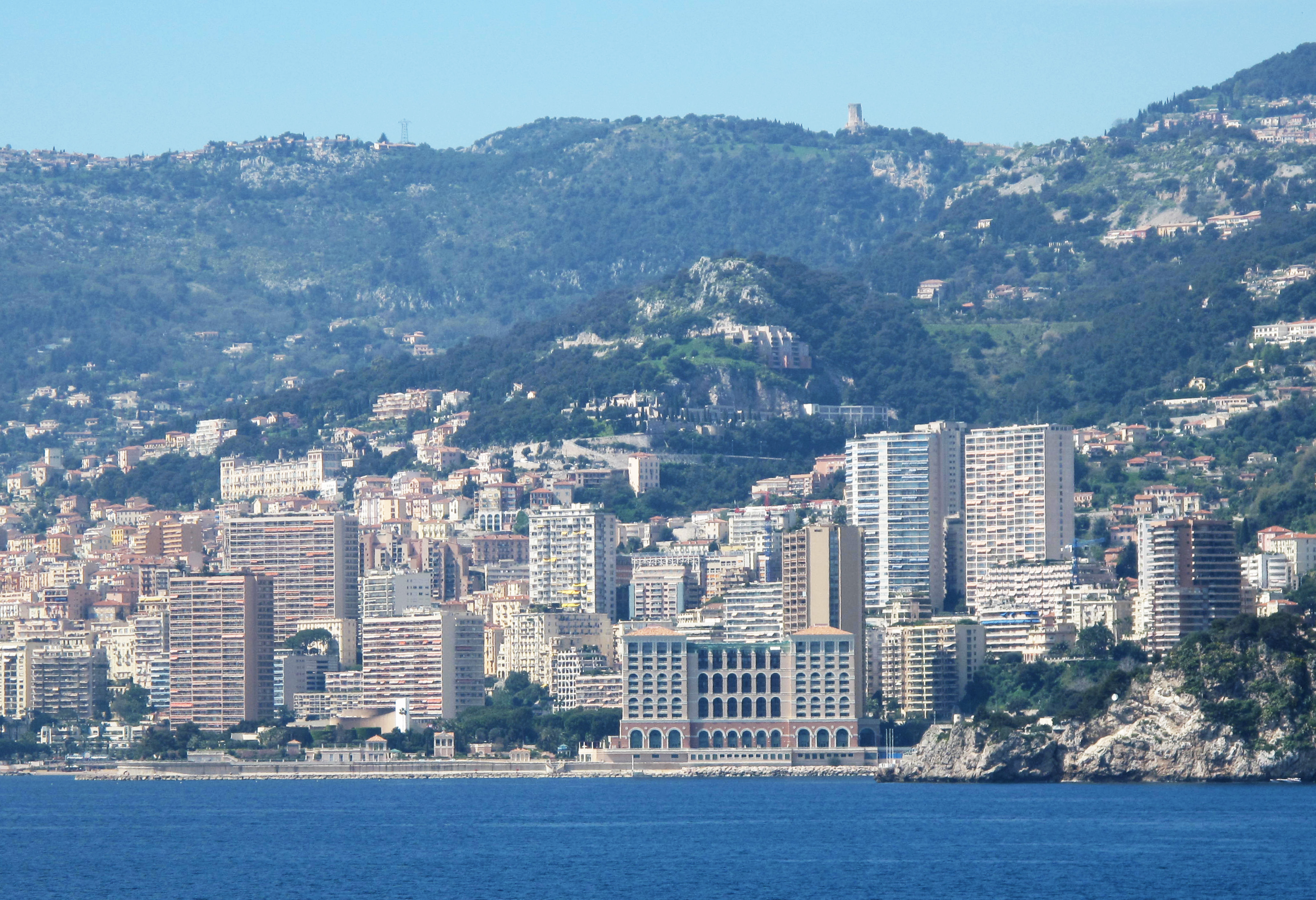 Monaco, seen from the Cap-Martin (Alpes-Maritimes, France). At the top of the heights, the Tropaeum Alpium is visible, as a small tower.